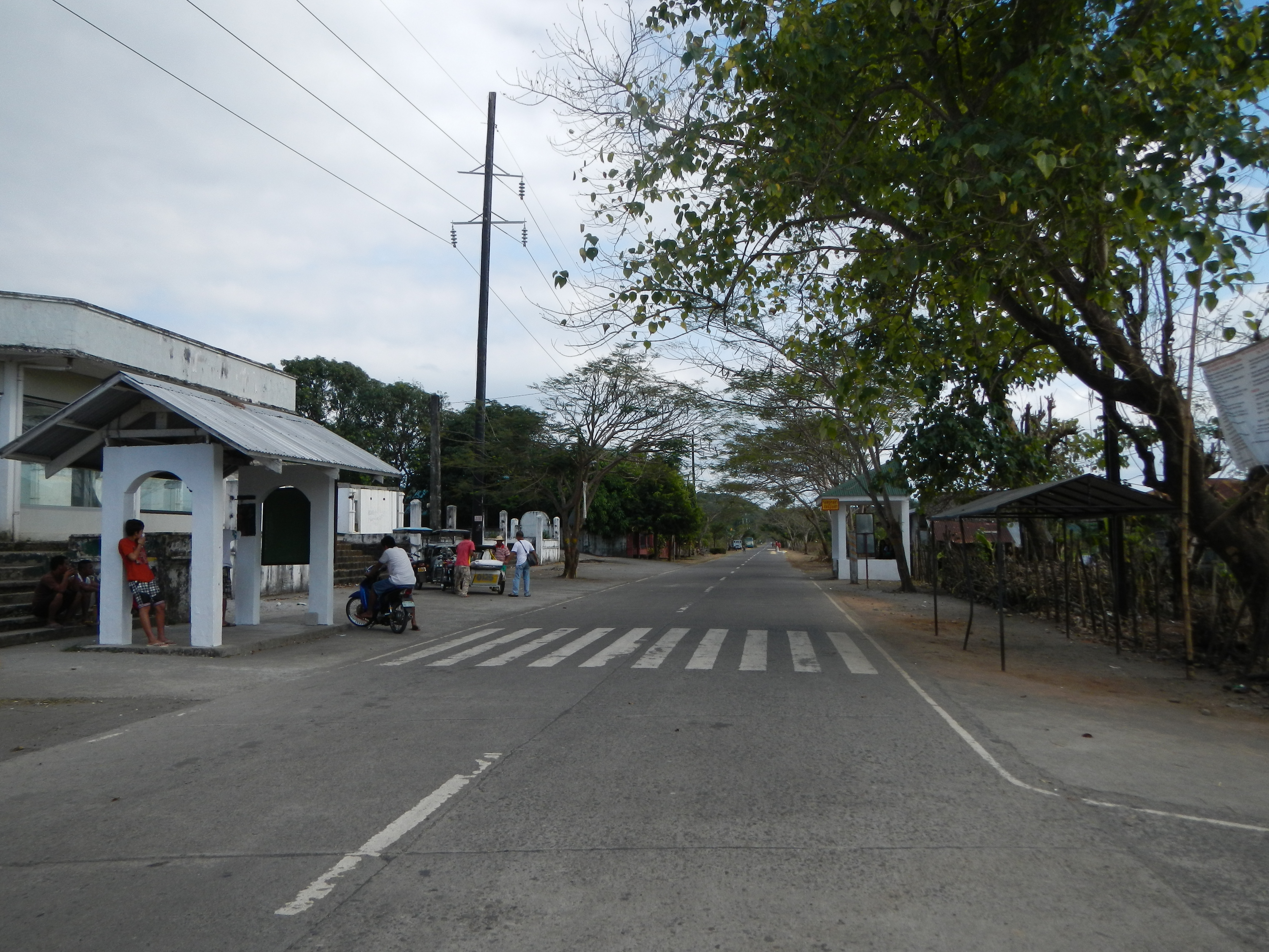 Morong, Bataan[1]Morong is a third class municipality in the province of Bataan, Philippines. According to the 2010 census, it has a population of 26,171 people. The municipality is accessible via the Bataan Provincial Expressway, off Exit 65.[2]